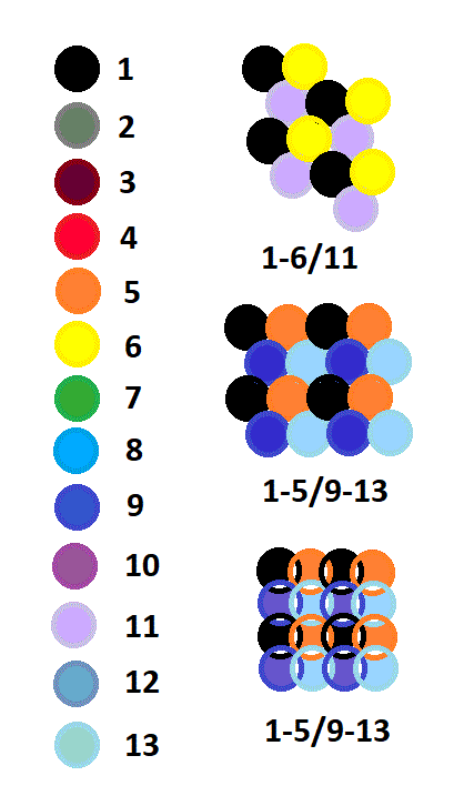 Common frequency allocations of Wi-Fi channels